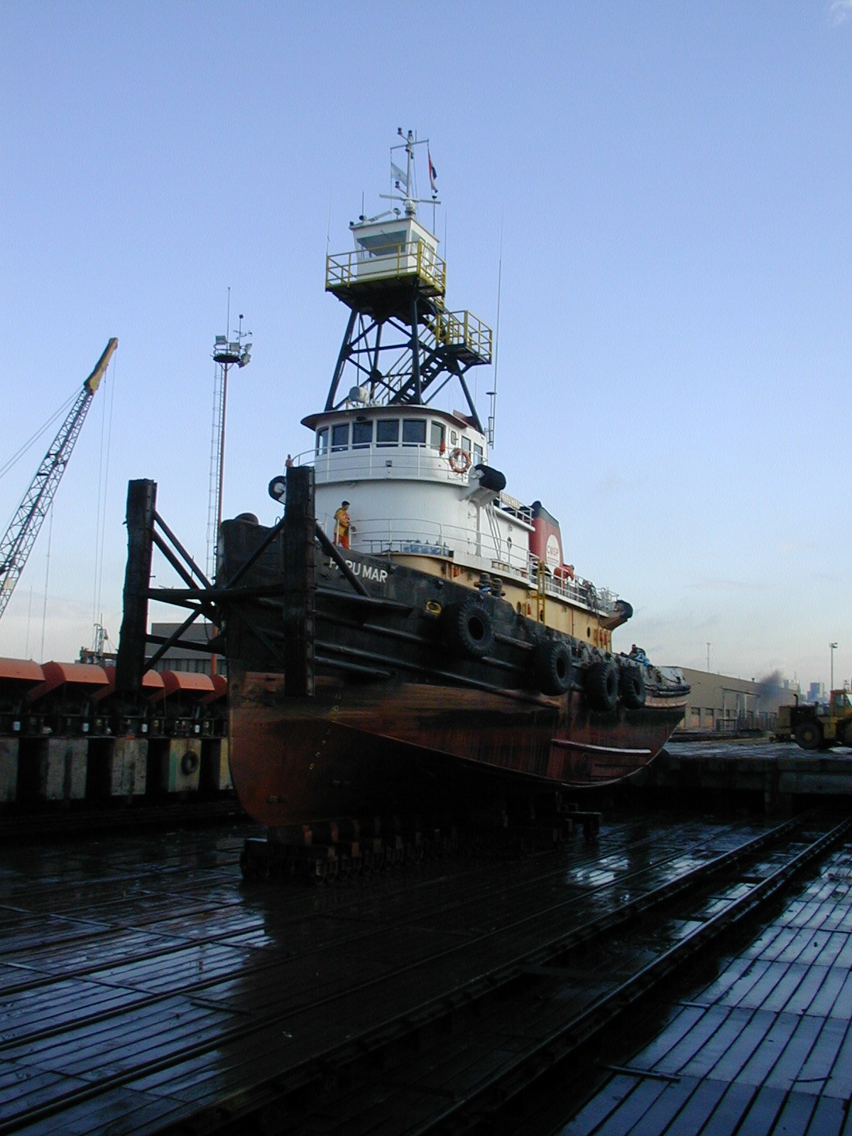 Syncrolift transfer operation at Buenos Aires dry dock facility.